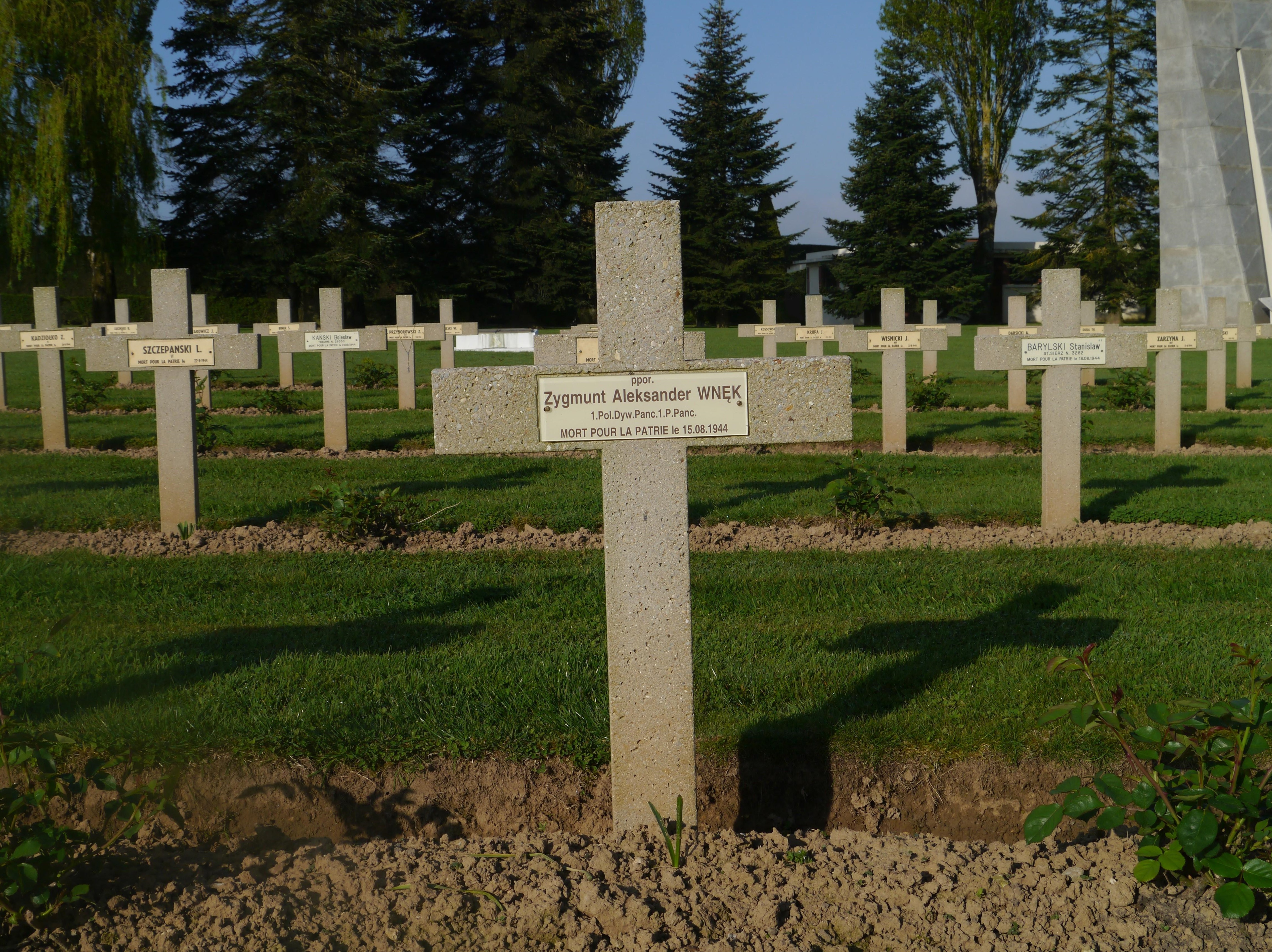 Grave of 2nd. Lieutenant Zygmunt Aleksander Wnęk in the Polish War Cemetery at Langannerie, Normandy.The inscription finally amended thanks largely to the efforts of his distant relatives.